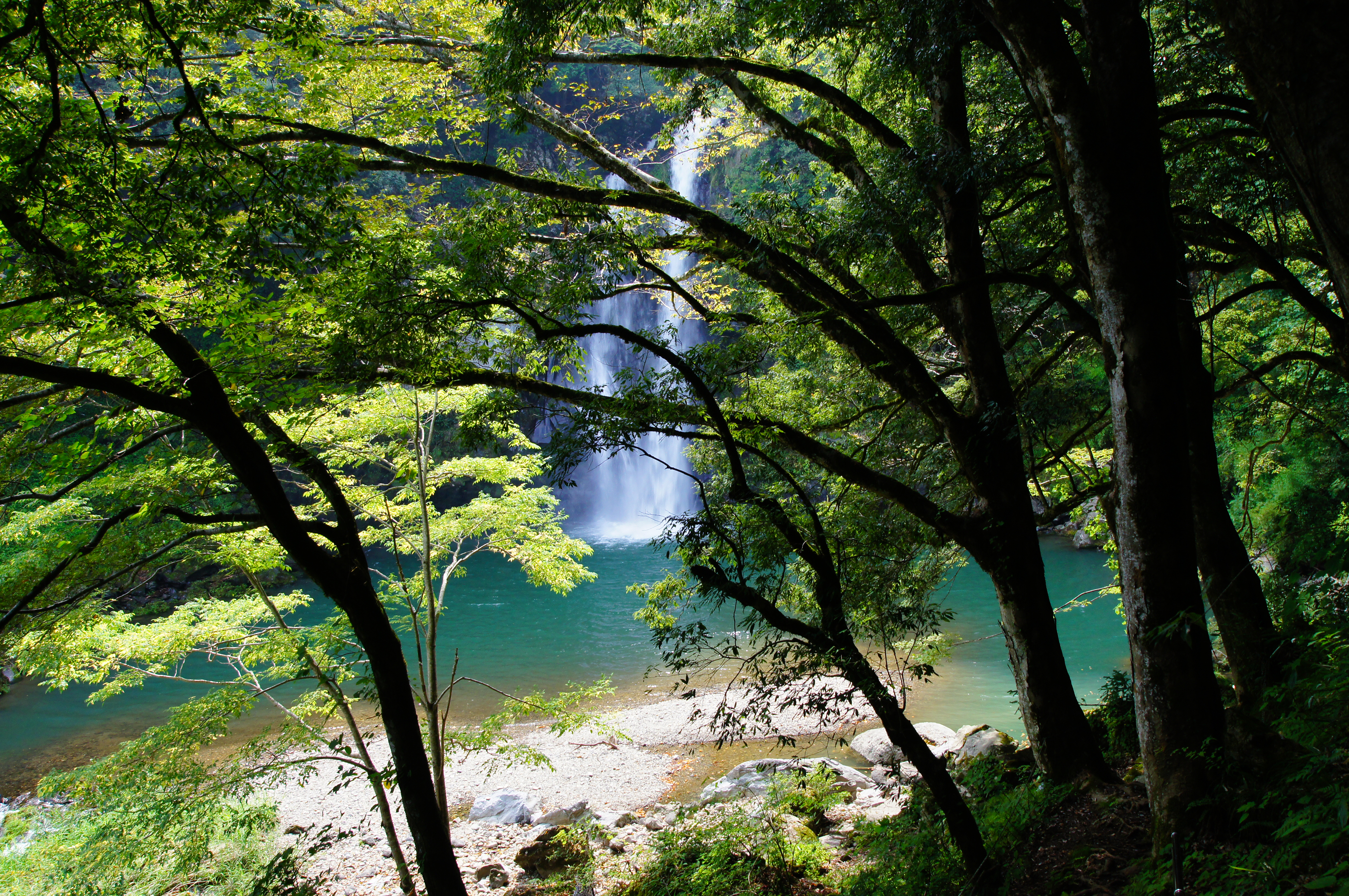 Hattandaki Waterfall in Kannabe highlands, Toyooka, Hyogo prefecture, Japan. It is a part of "San'in Kaigan Global Geopark" which joins in Global Geoparks Network.